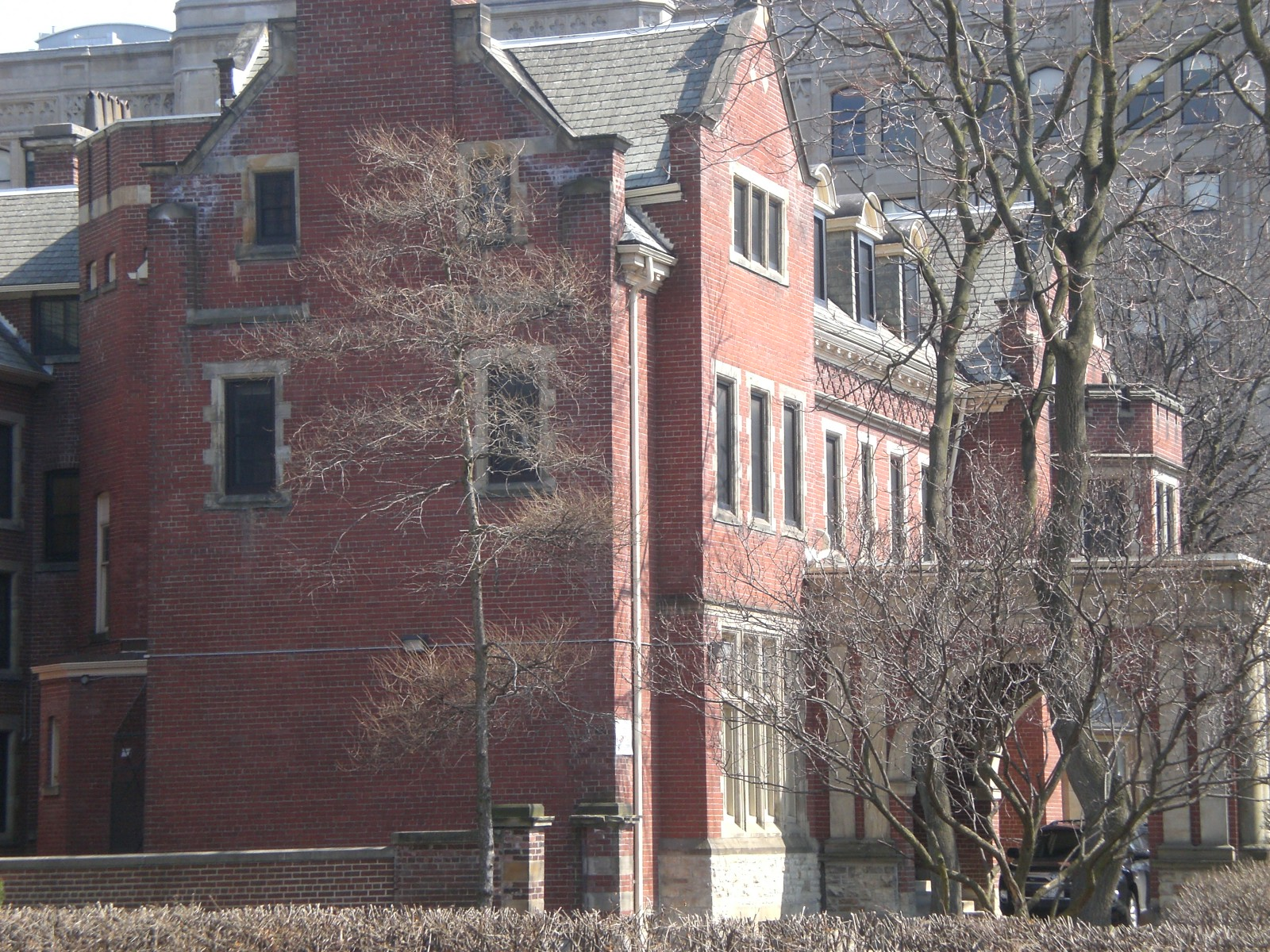 North side of Regis College, Toronto from Queens Park Crescent